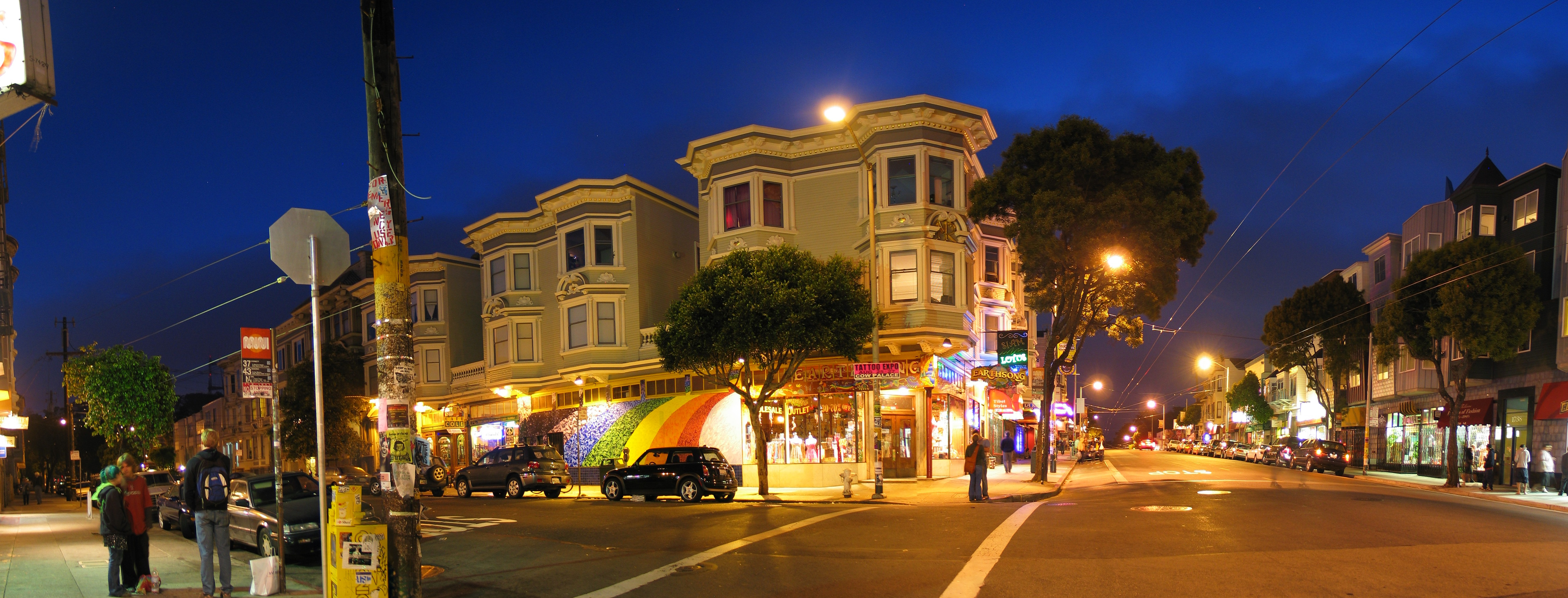 Street corner in Haight Ashbury (actually of Haight and Cole), San Francisco, USA